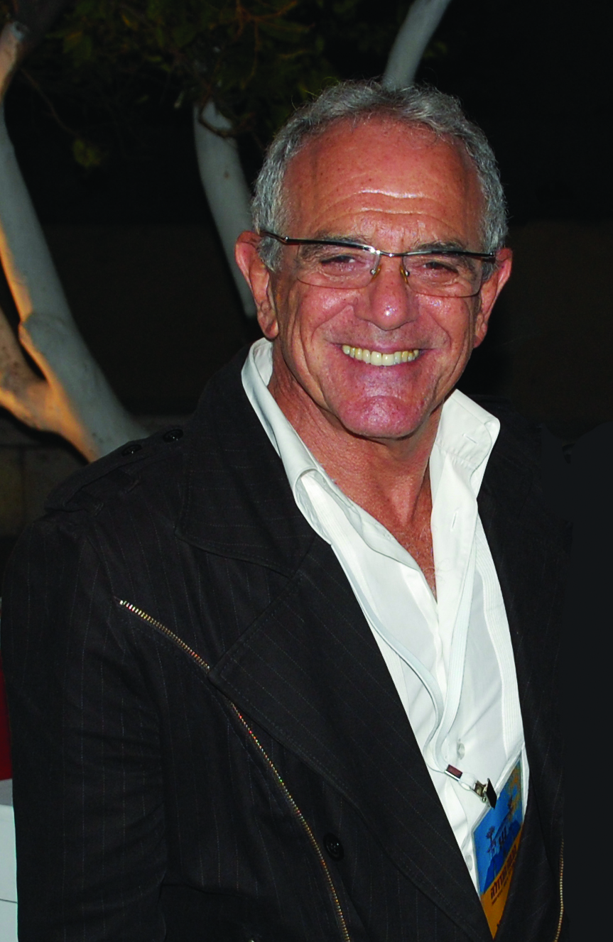 photo of Yair Vardi